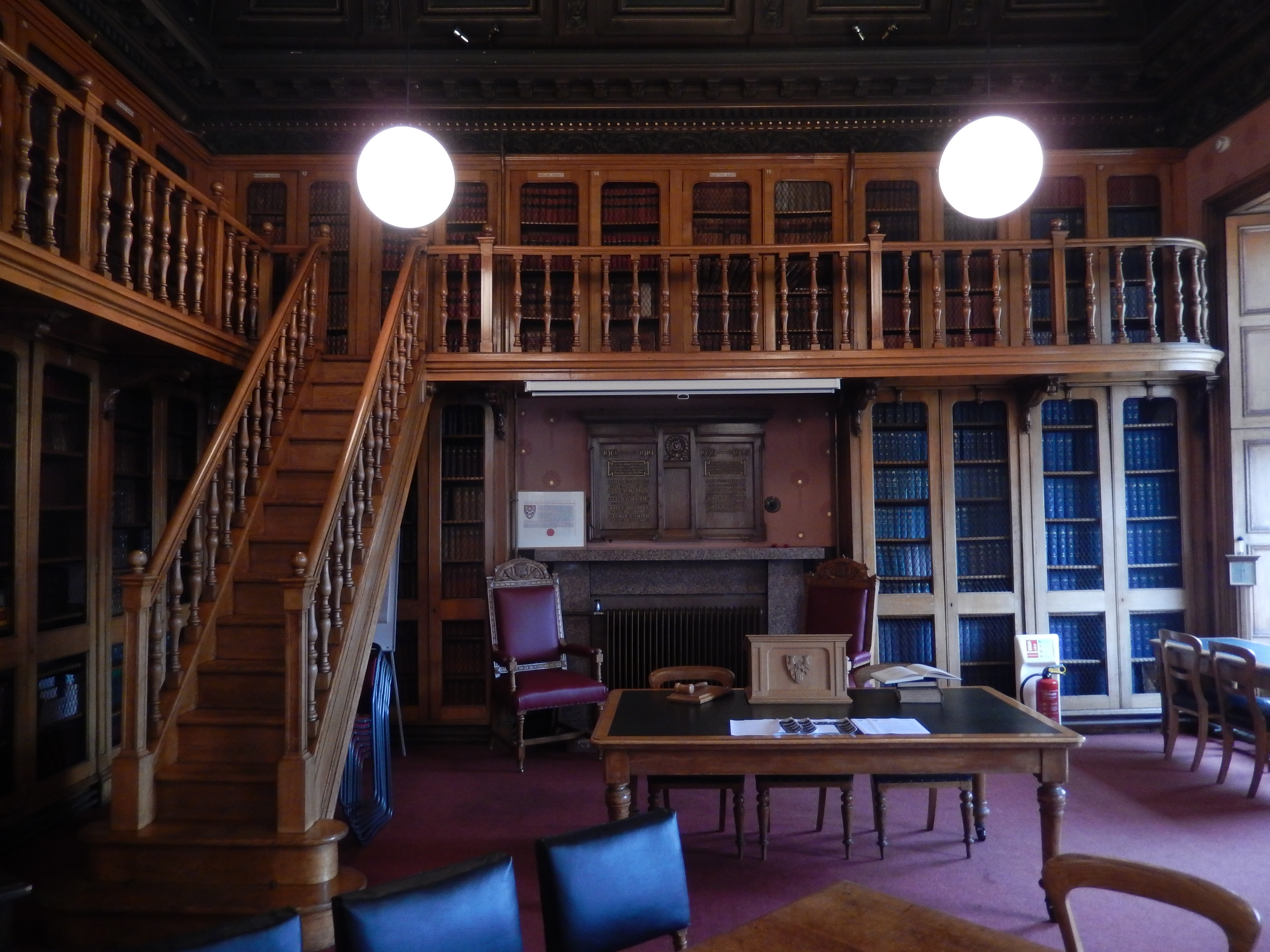 Library Steps, Advocates Hall, Society of Advocates, Concert Court, Aberdeen. Built in 1869 to a design by James Matthews.